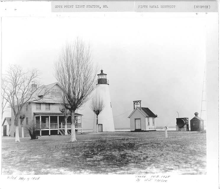 Cove Point Light, Chesapeake Bay, Maryland, USA